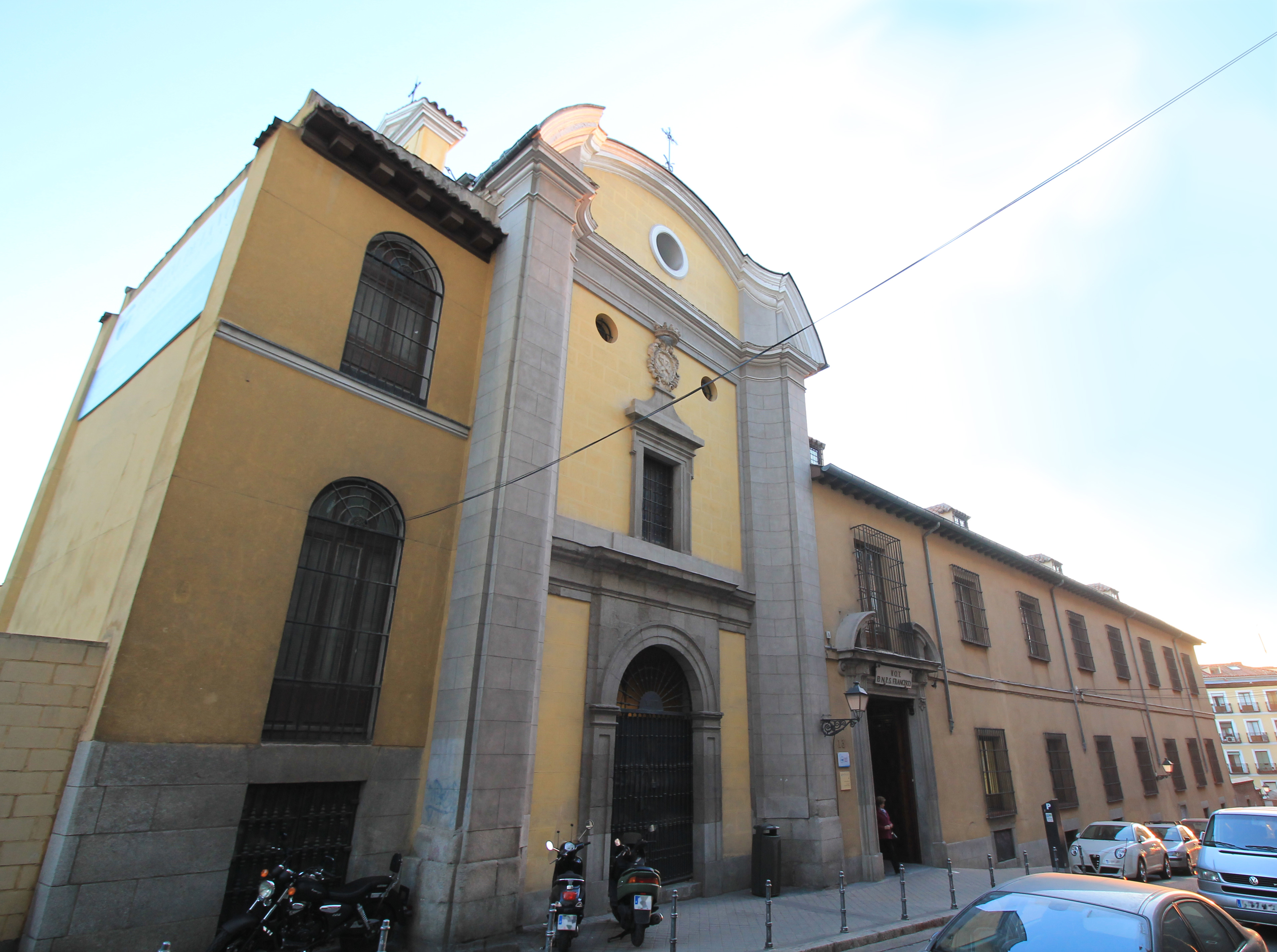 North-west façade of Hospital de la Venerable Orden Tercera (a hospital) in Madrid (Spain).